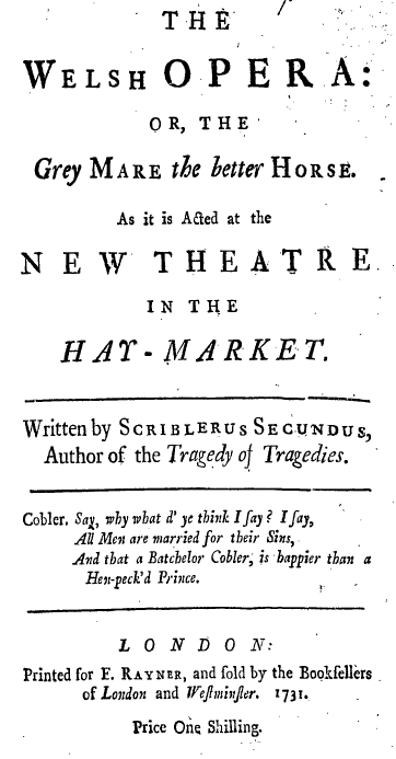 Fielding, Henry. The Welsh opera: or, the grey mare the better horse. As it is acted at the New Theatre in the Hay-Market. Written by Scriblerus Secundus. London: Printed for F. Rayner, 1731.